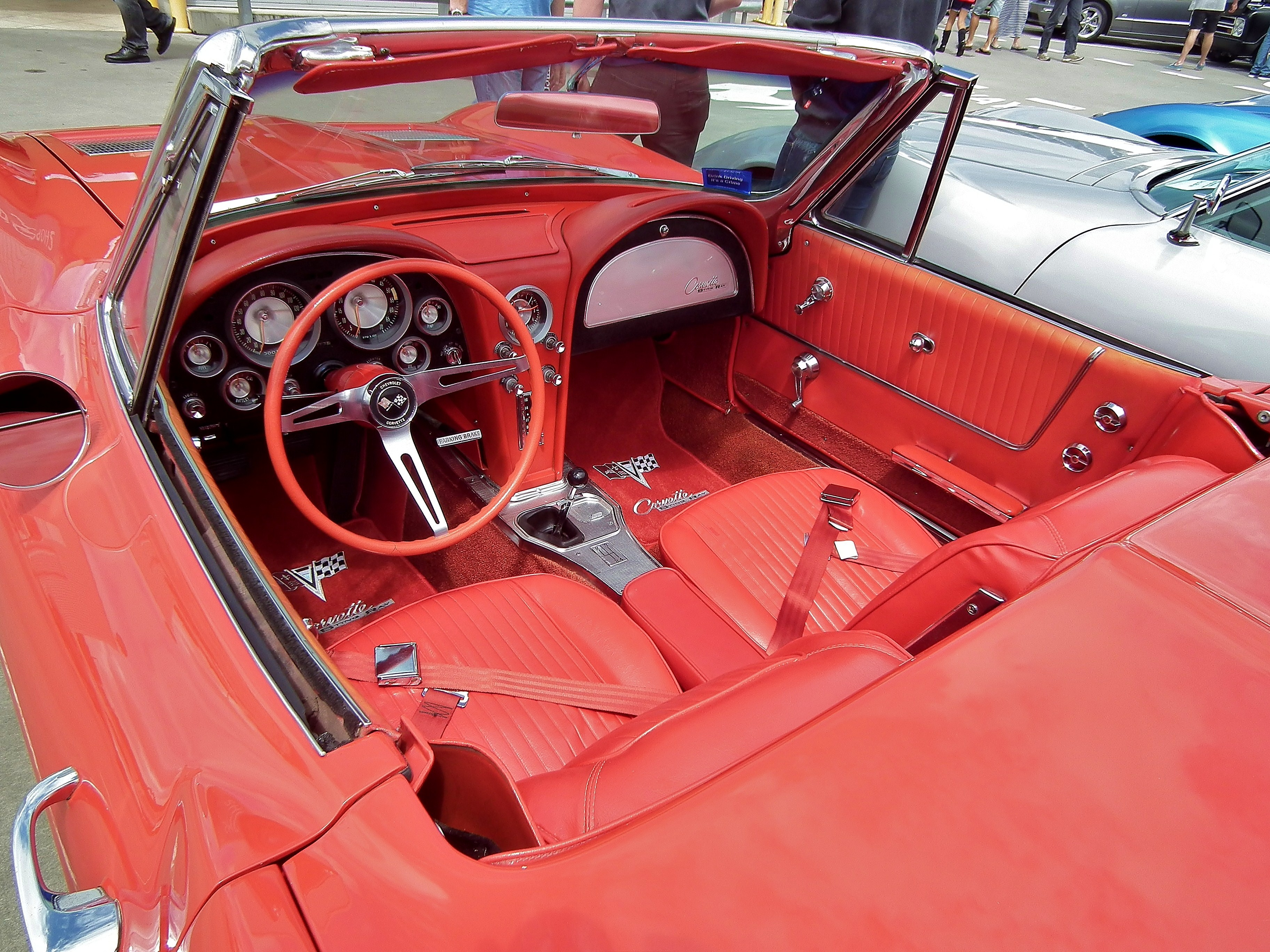 1963 Chevrolet C2 Corvette Stingray roadster interior. Taken at the 2012 New South Wales All American Day, held at Castle Towers Shopping Centre, Castle Hill, Sydney.